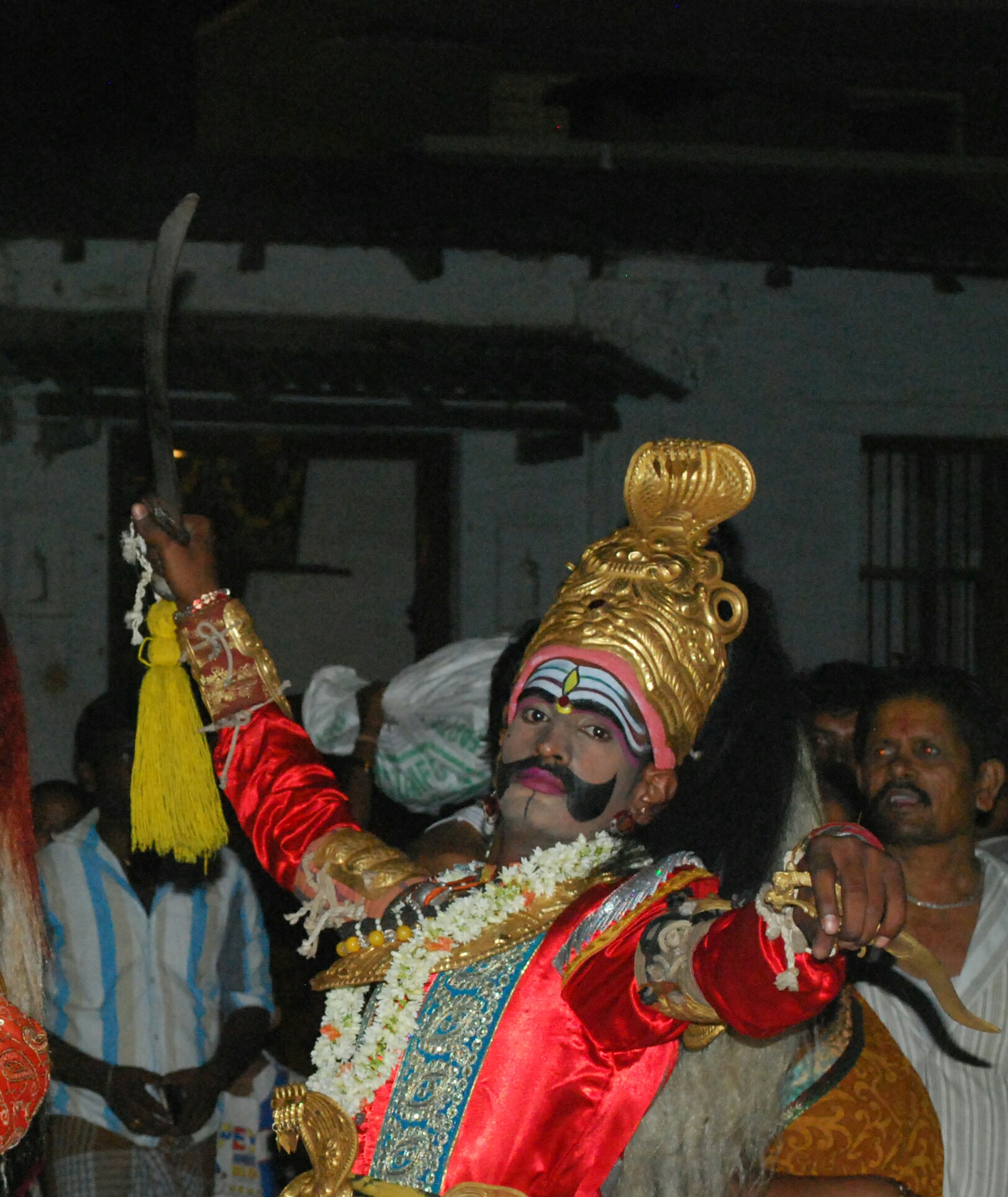 type of dance for which is famous in Karnataka